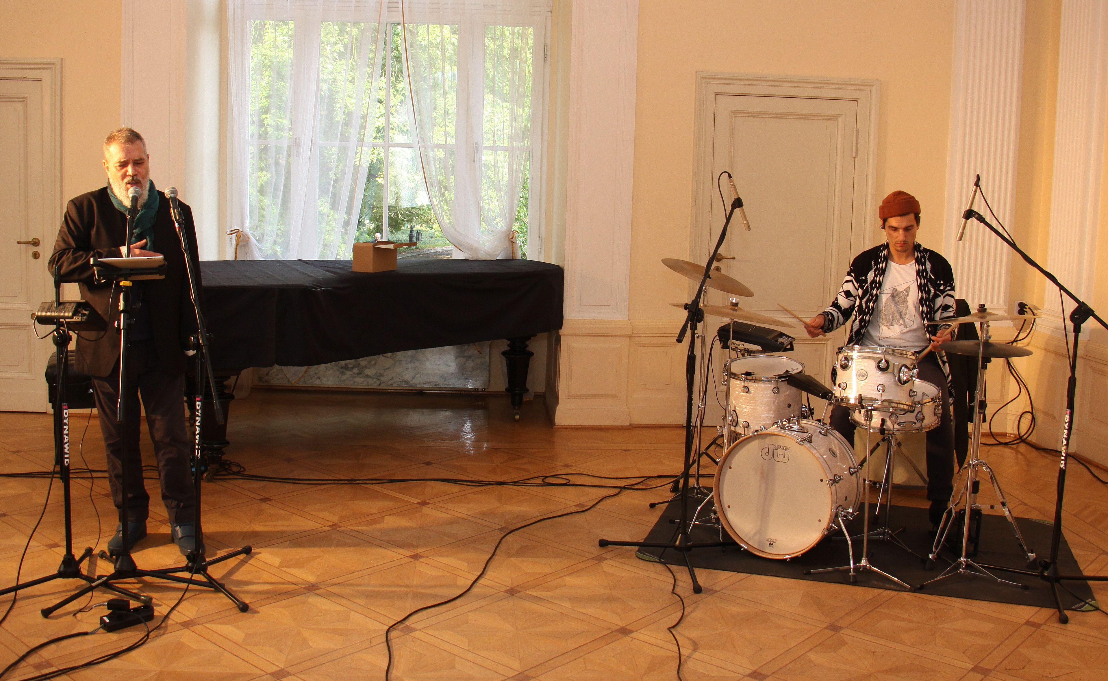 Jorgos Skolias & Antonis Skolias during concert in Ostromecko Palace (2017).